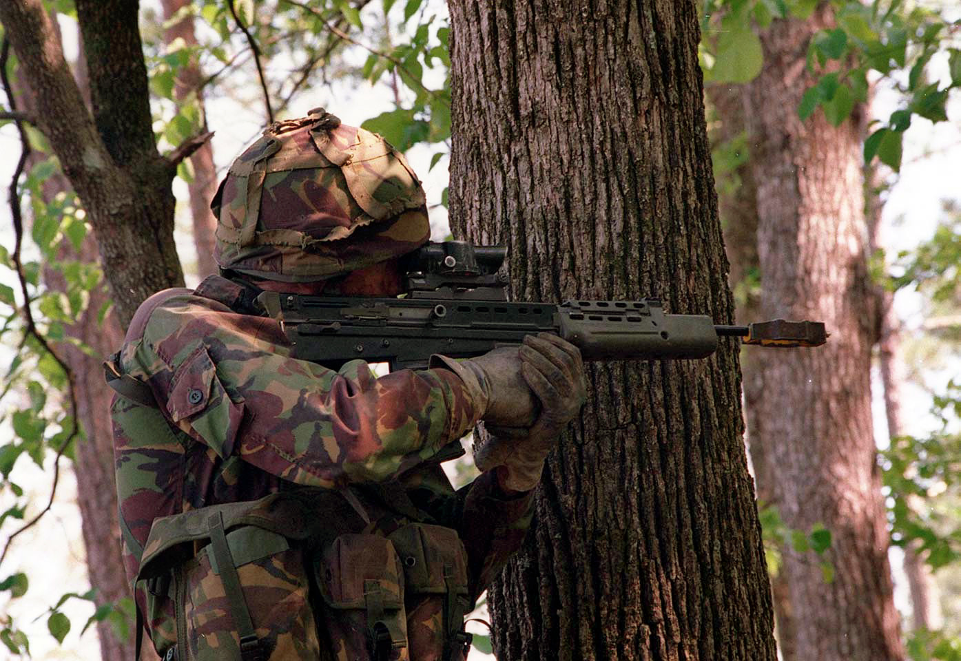 A Royal Marine stands beside a large tree to site in his weapon during a firefight with aggressors. During the Combined Joint Training Field Exercise (CJTFEX) 96 in Marine Corps Base Camp Lejeune, North Carolina (USA).